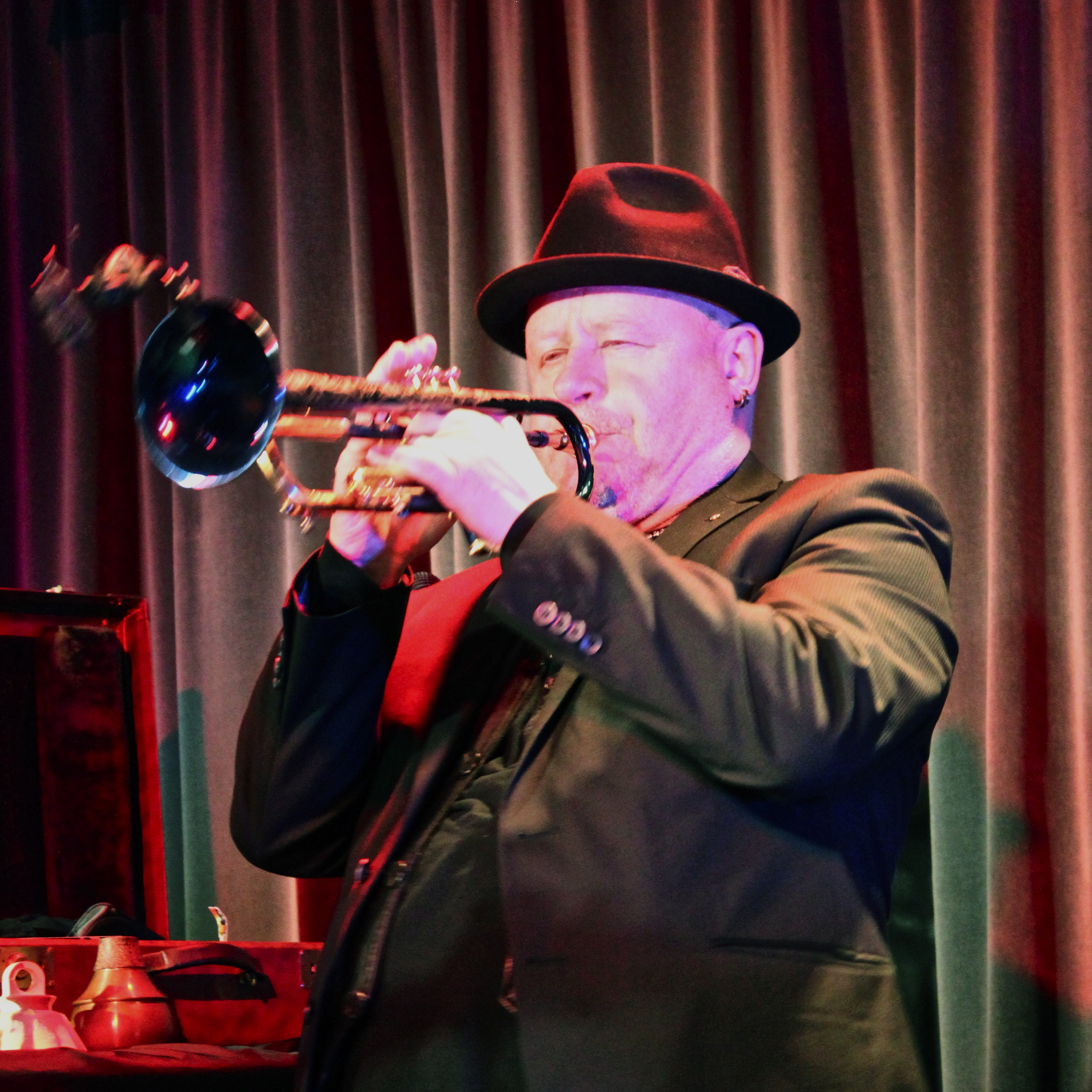 Gast Waltzing during a concert with his band Largo in Jazz Station, Saint-Josse Ten Noode.